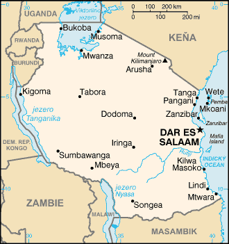 Map of Tanzania with Czech description.